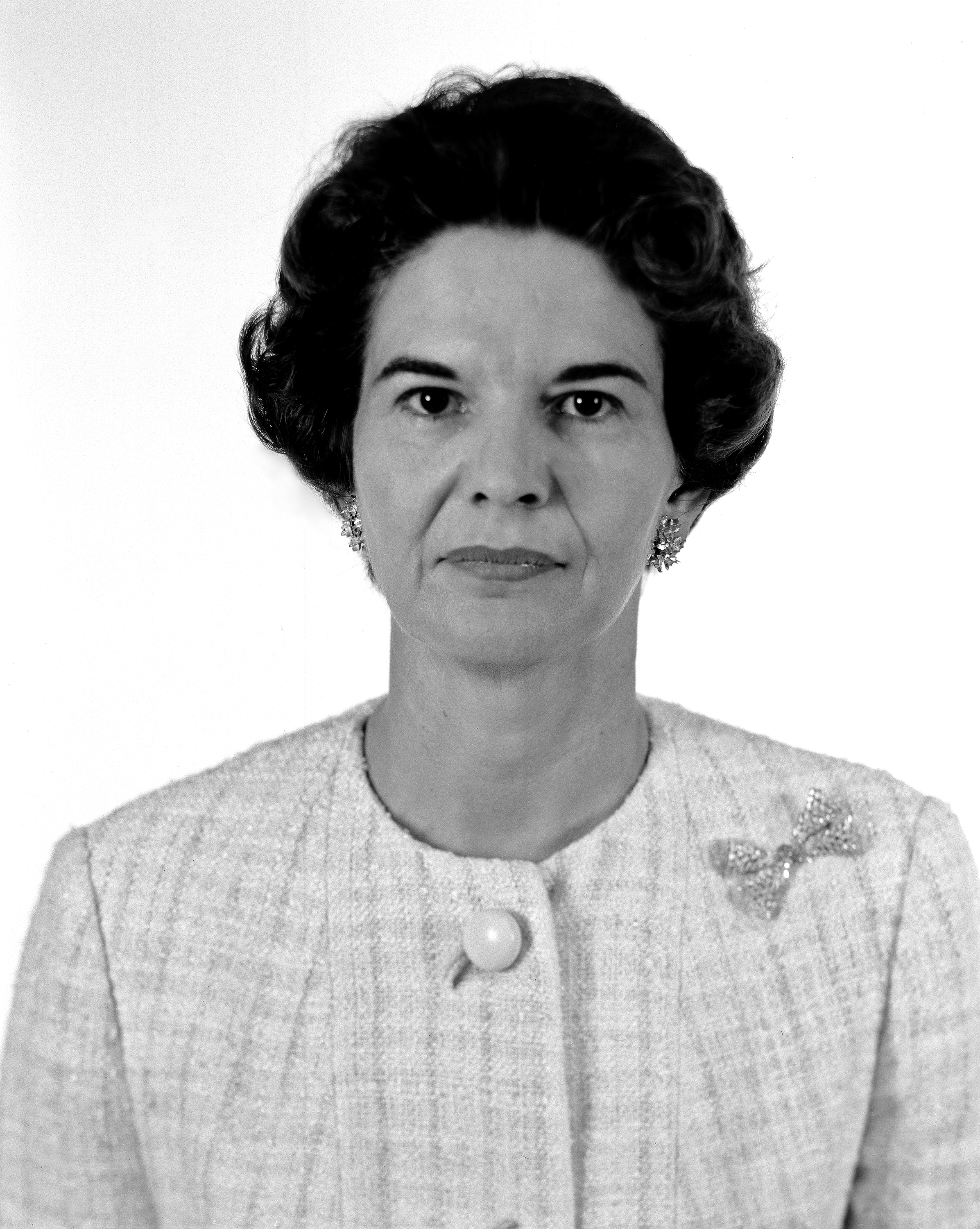 NACA/NASA engineer Kitty O'Brien Joyner in 1964.